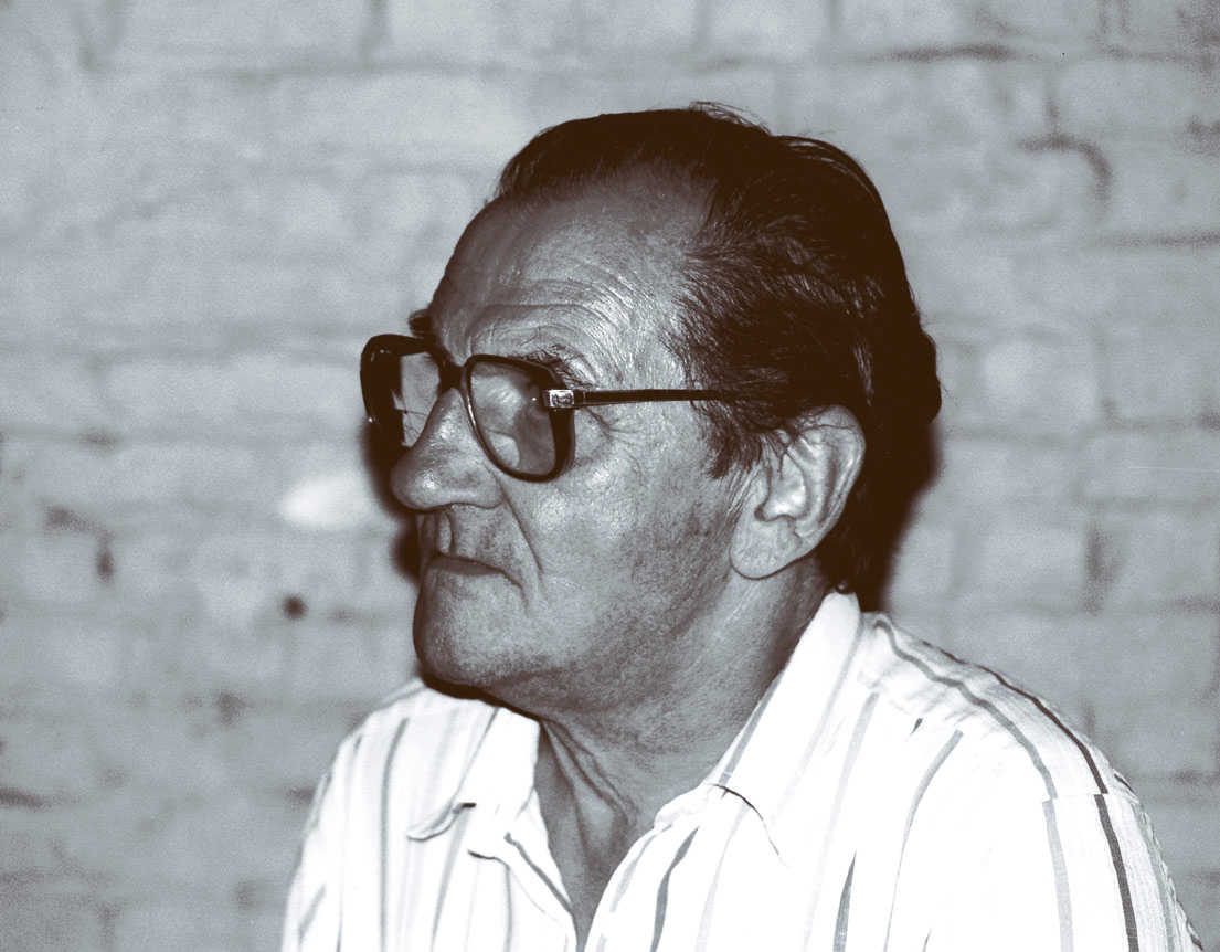 Picture of Antoine Bauwens